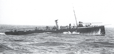 Austro-Hungarian gunboat (SMS Trabant) - copyright expired